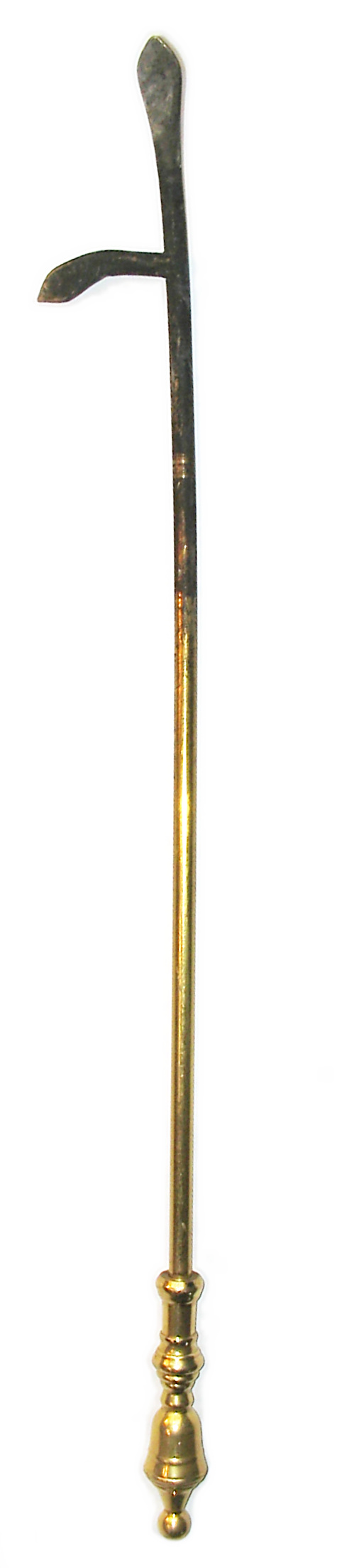 A fireplace poker. David Benbennick took this photograph on April 4, 2005. I wish I could make an honest white background. Need some brighter, fancy photography lights. I edited the original to make the background white - Iainf 04:45, 30 July 2006 (UTC)